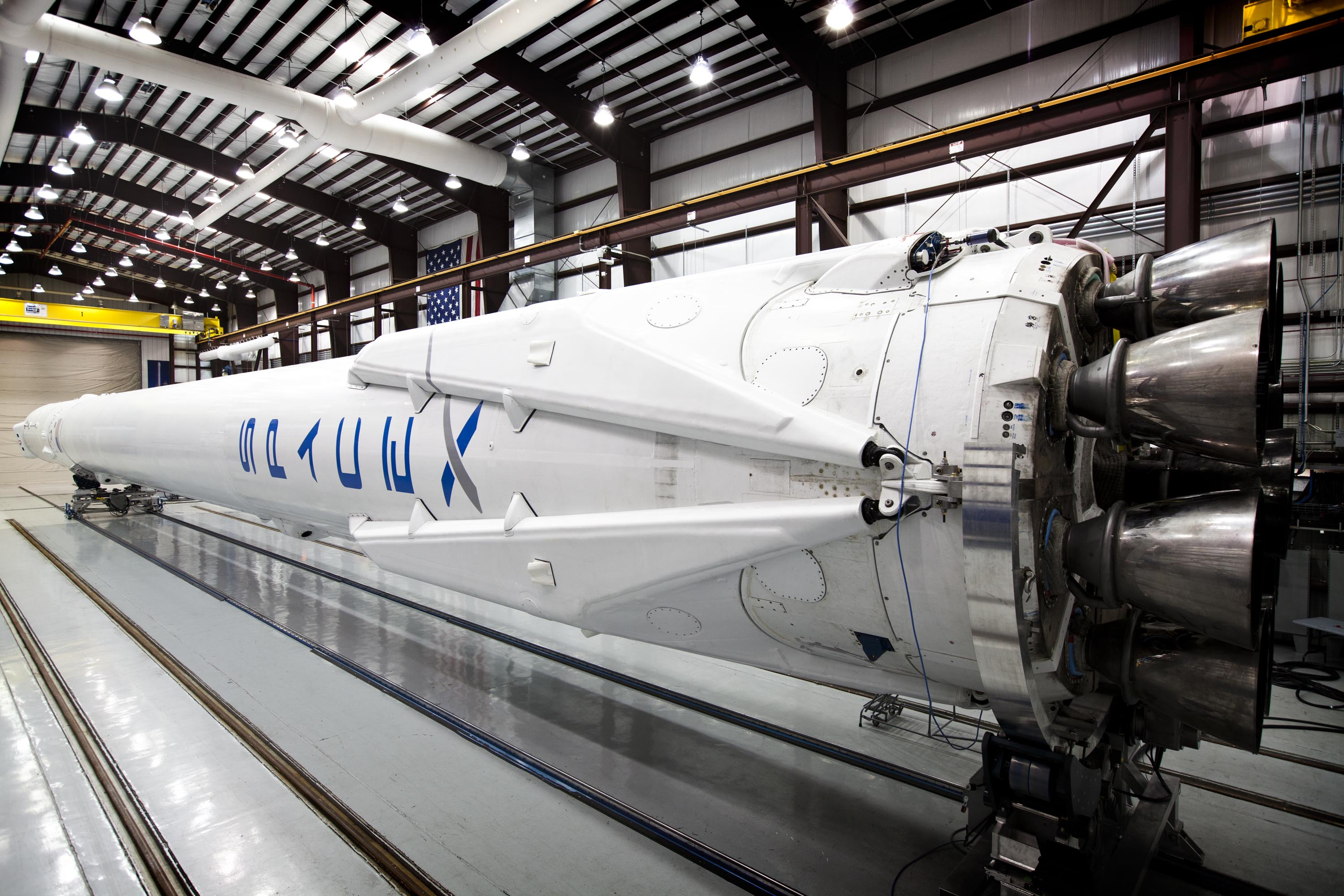 SpaceX’s Falcon 9 rocket and Dragon spacecraft launched from Launch Complex 40 at the Cape Canaveral Air Force Station, Florida, for their third official Commercial Resupply (CRS) mission to the orbiting lab on April 18, 2014. Dragon returned to Earth with a parachute-assisted splashdown off the coast of southern California on May 14, 2014. Dragon is the only operational spacecraft capable of returning a significant amount of supplies back to Earth, including experiments.